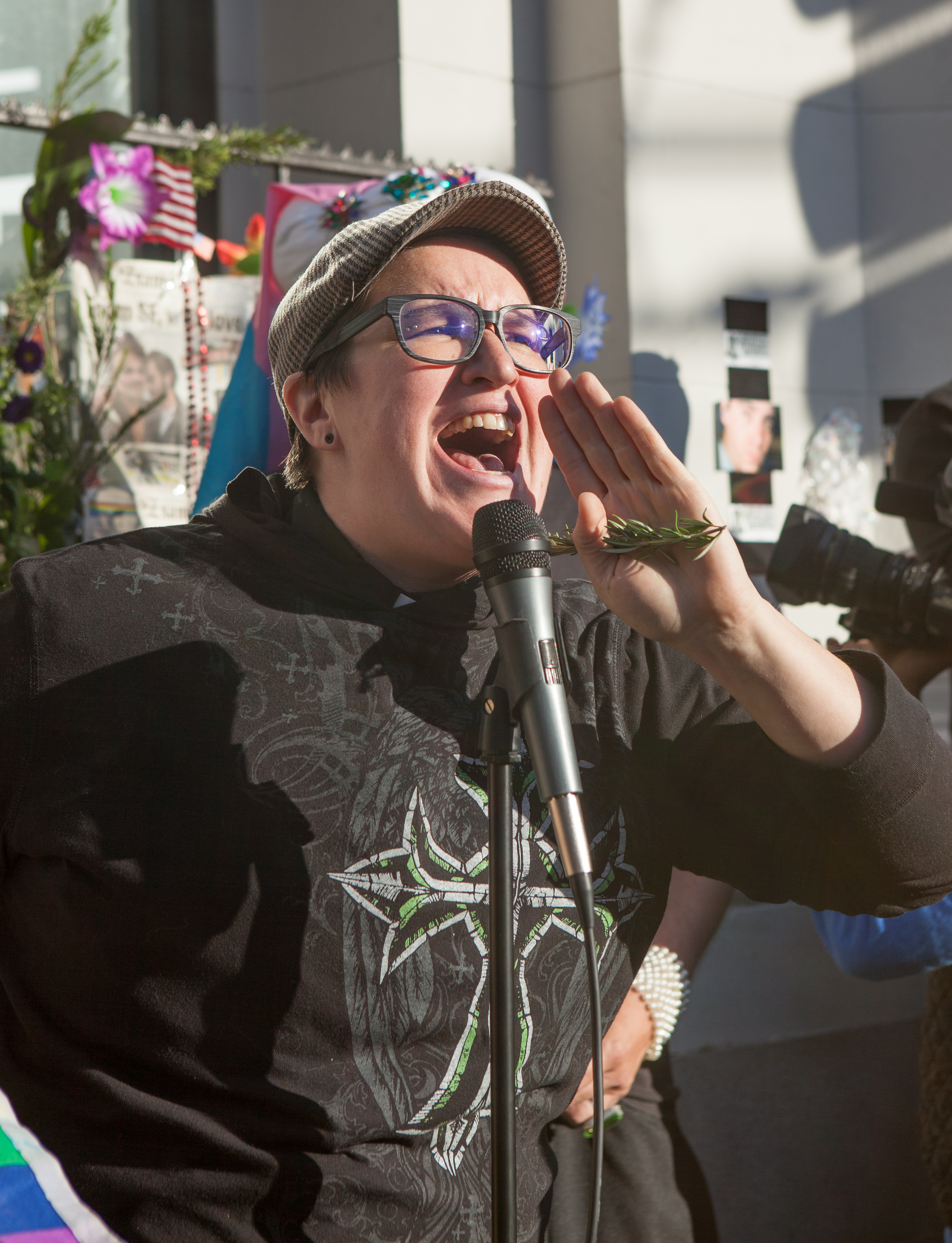 Rev. Megan Rohrer speaks at the "HonorThemWithAction" vigil in San Francisco, on the one year anniversary of the Pulse Nightclub massacre in Orlando.